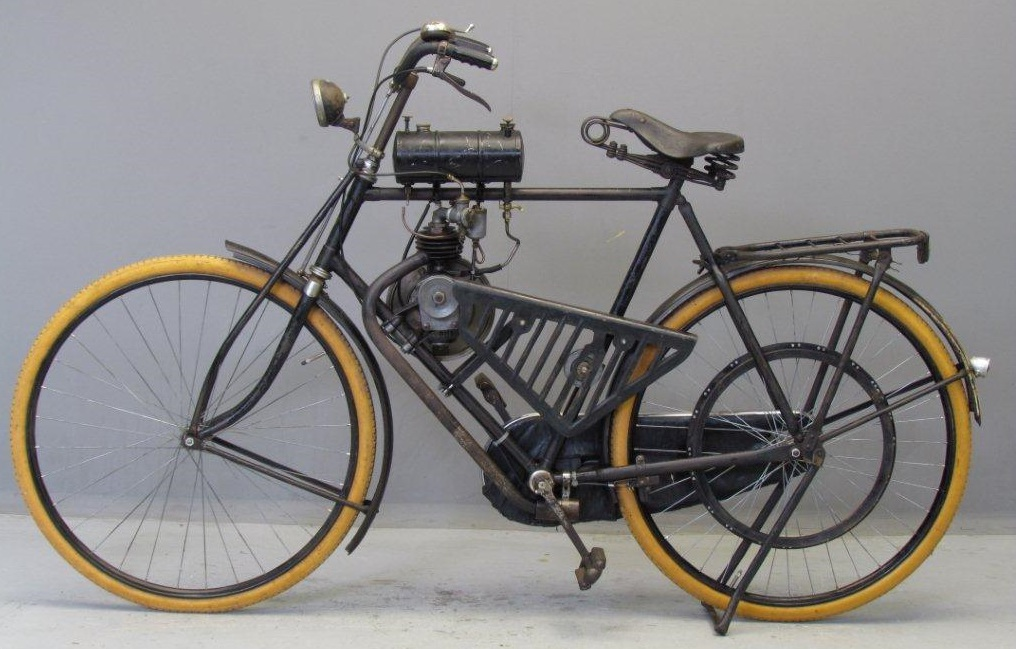 Dutch BMI 80 cc motorcycle from 1935